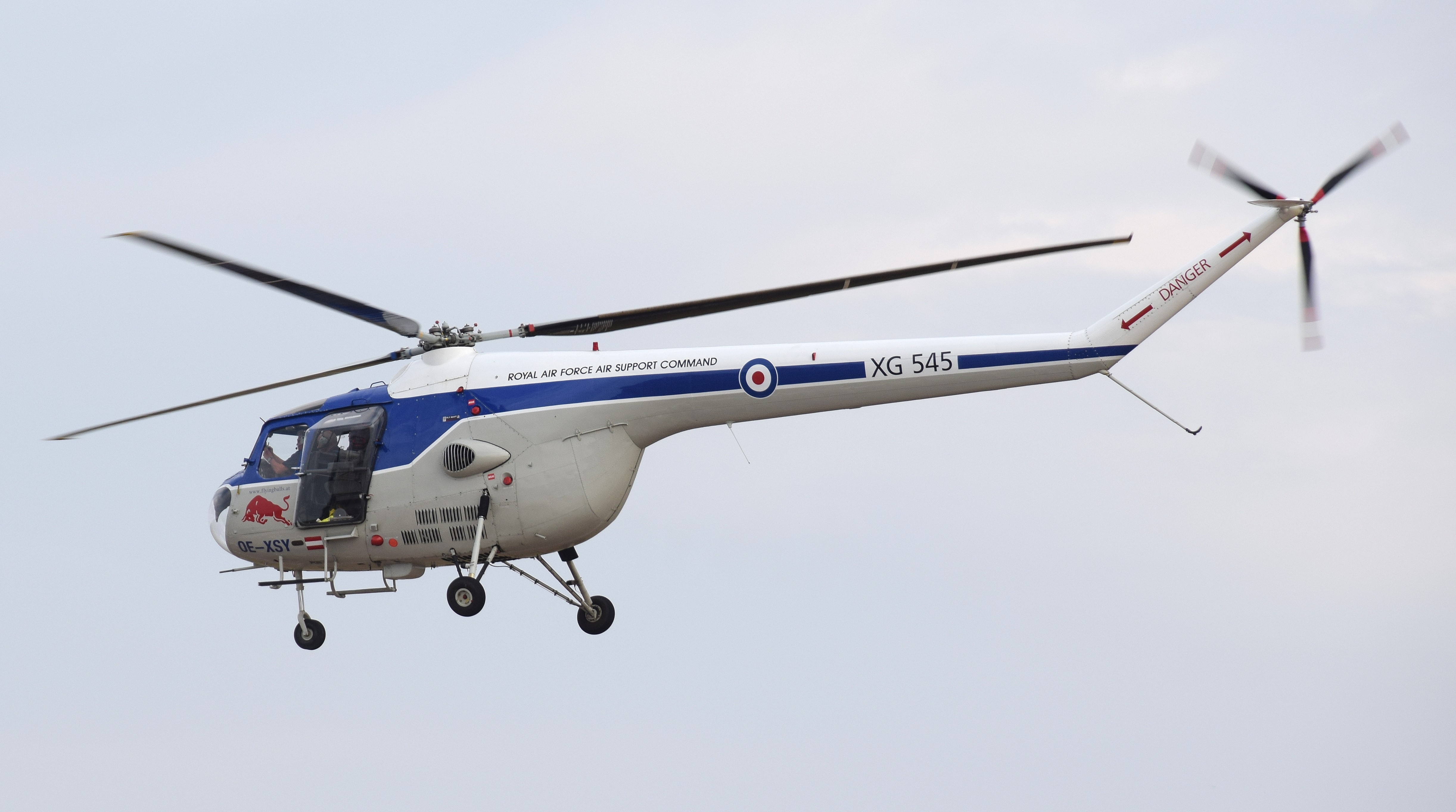 Preserved Bristol 171 Sycamore helicopter (OE-XSY) of the Flying Bulls departs the 2018 Royal International Air Tattoo, RAF Fairford, England. Flying Bulls are an aircraft preservation company located in Austria. Despite its colour scheme this Sycamore has no UK history, serving with the West German Luftwaffe from 1957 to 1973 before passing into private hands. Flying Bulls have applied the RAF 32 Squadron colour scheme, code XG545.